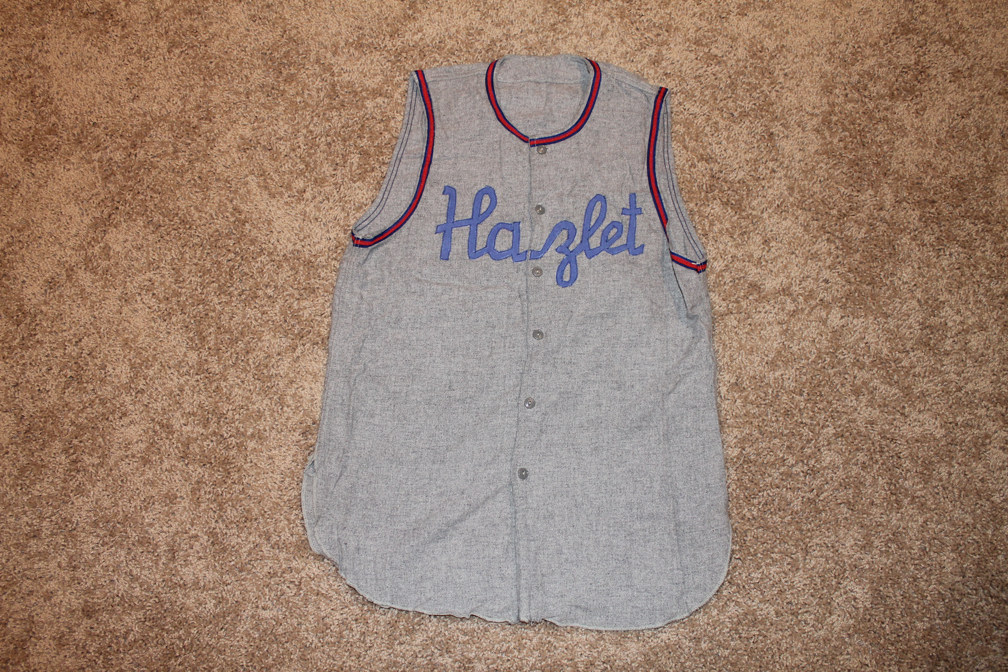 Baseball Jersey from the 1960's